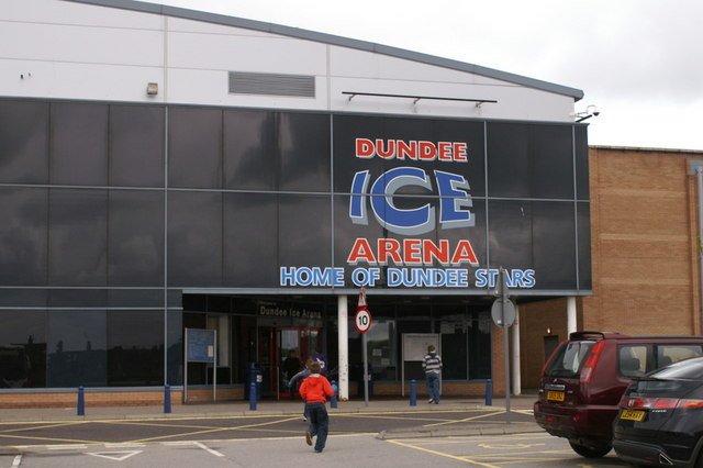 Dundee Ice Arena Home of the Dundee Stars ice hockey team.